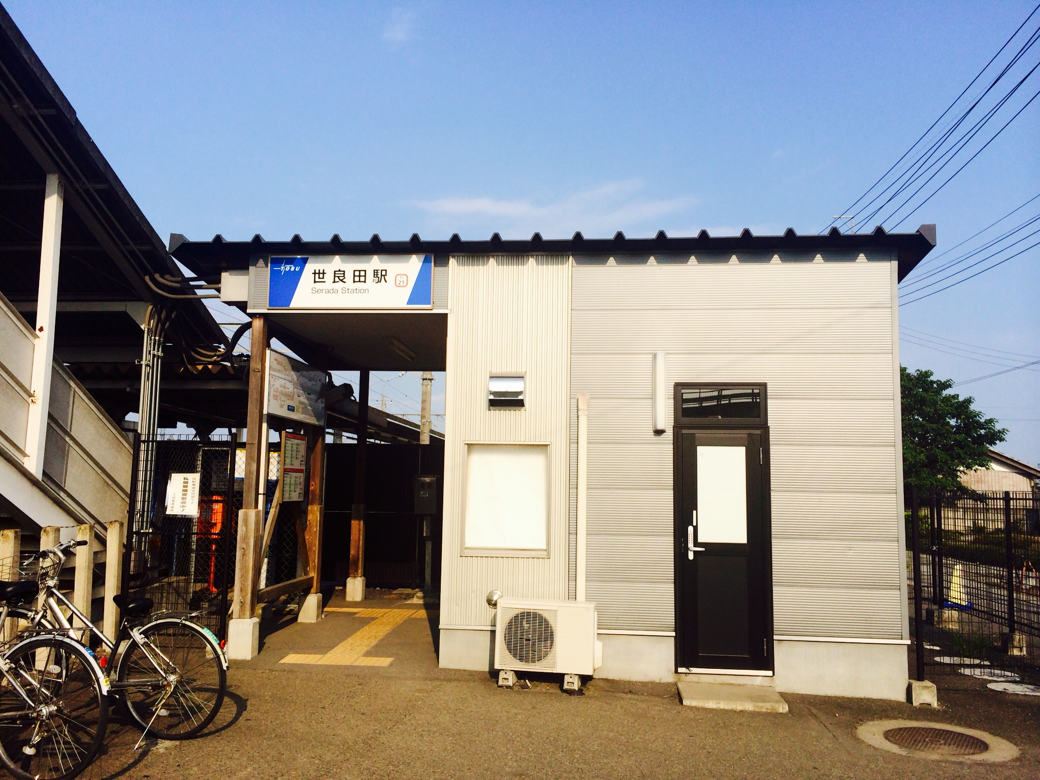 Serada Station on the Isesaki Line